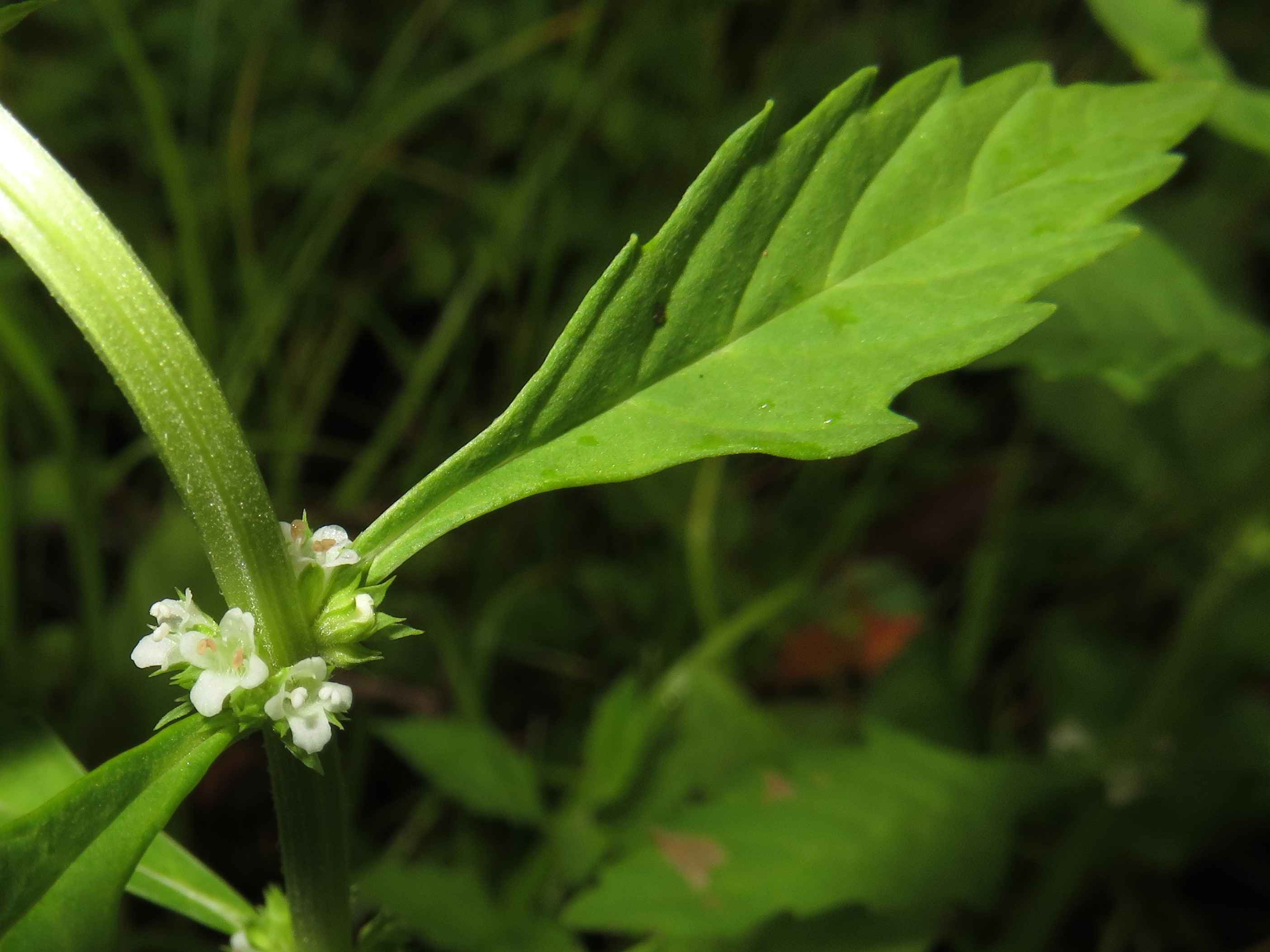 Lycopus cavaleriei, Aizu area, Fukushima pref., Japan